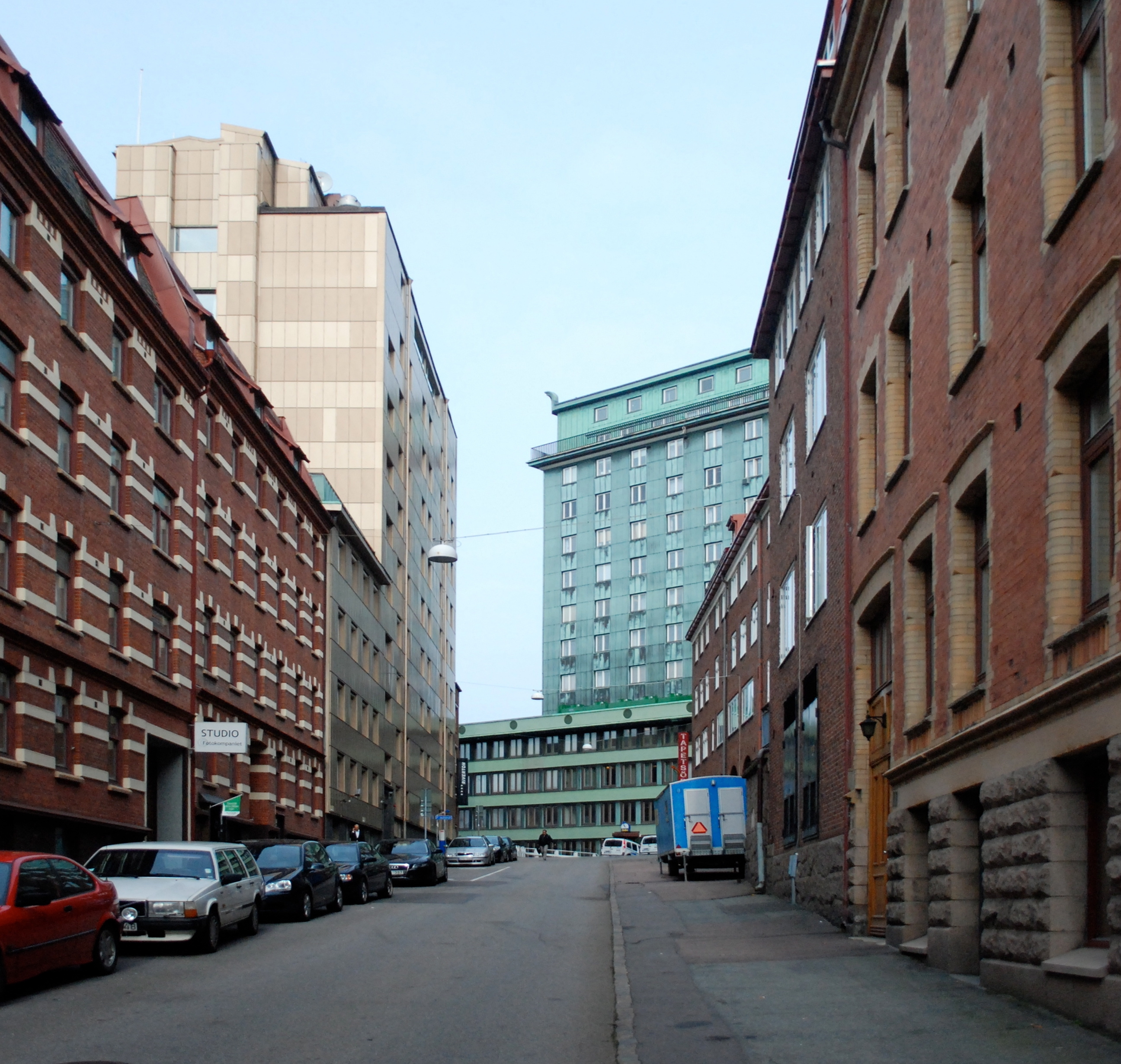 Ingenjörsgatan.